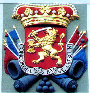 Arms of the "Republic of the Seven United Provinces" (the Netherlands between 1581 - 1795). Relief in Dordrecht